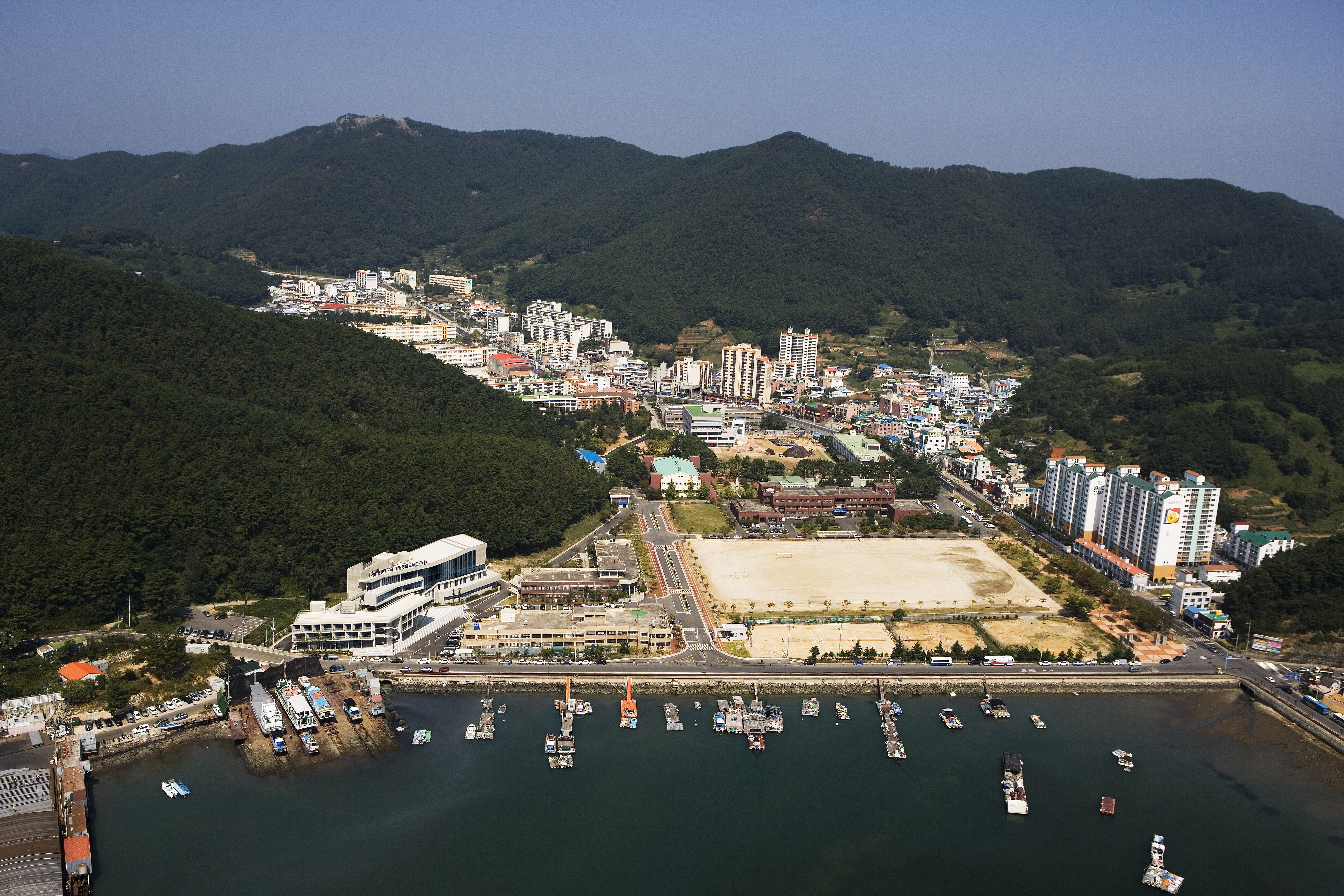 통영캠퍼스 항공촬영